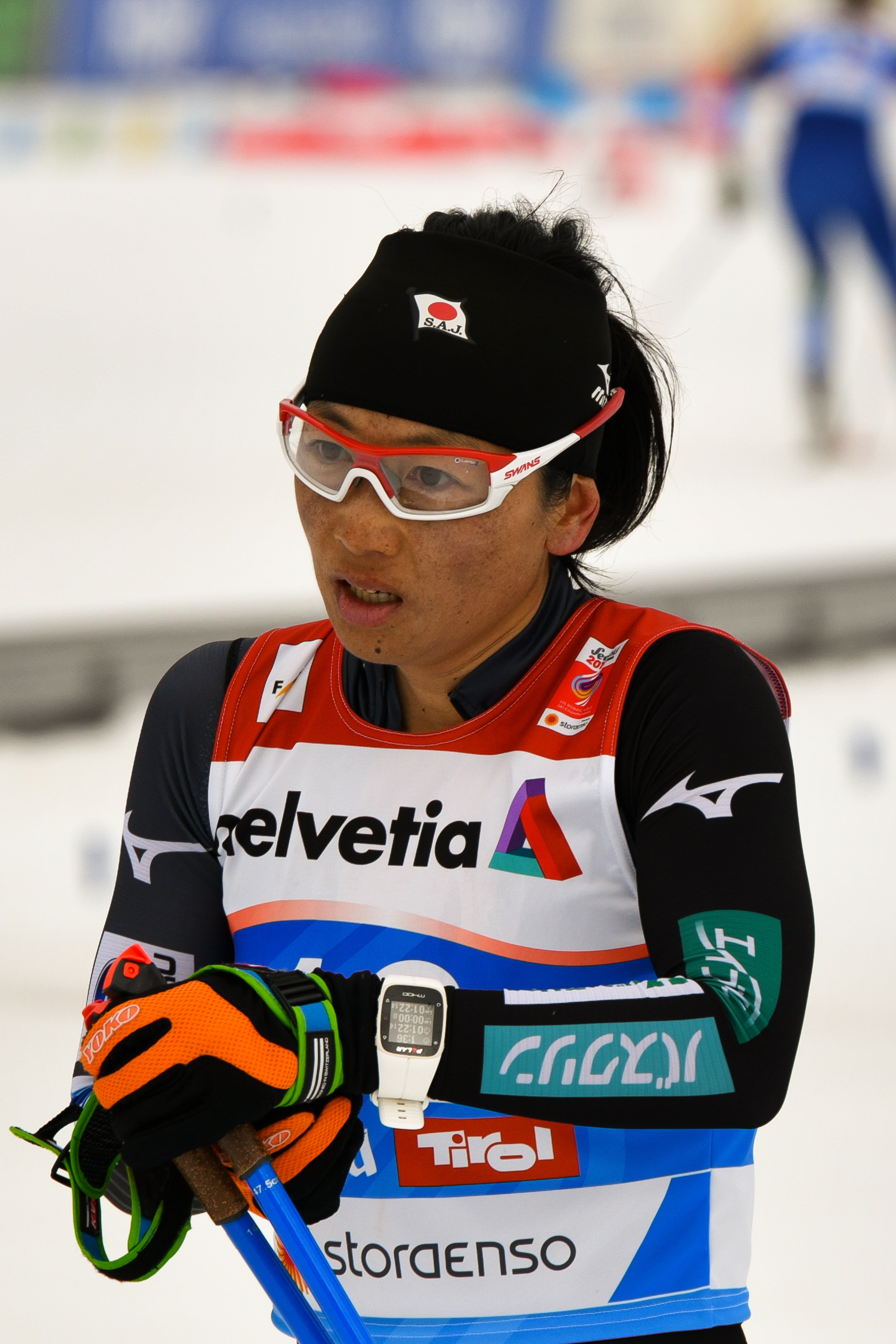 FIS Nordic Wolrd Ski Championships Seefeld 2019 - Ladies 30km Mass Start Free. Picture shows Masako Ishida (JPN).